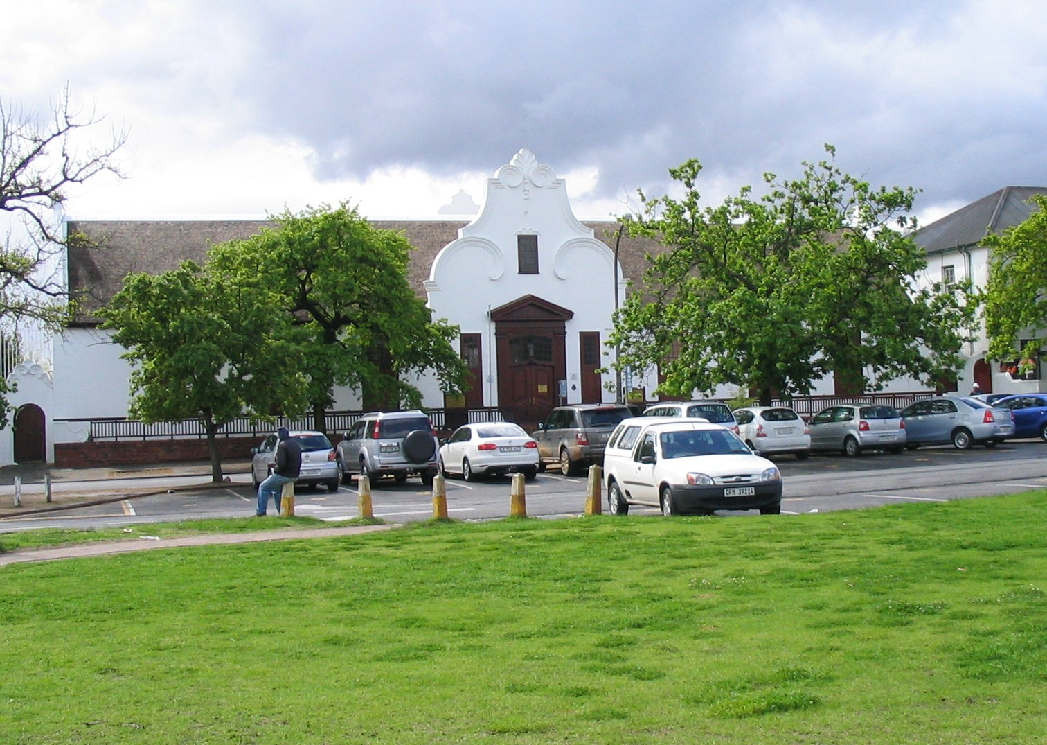 The Stellenbosch office of the Cape Winelands District Municipality at 46 Alexander Street is a modern building in the Cape Dutch Revival style protected to preserve the harmonious appearance of buildings facing the Braak. This media shows a South African Protected Site with SAHRA file reference 9/2/084/0070.